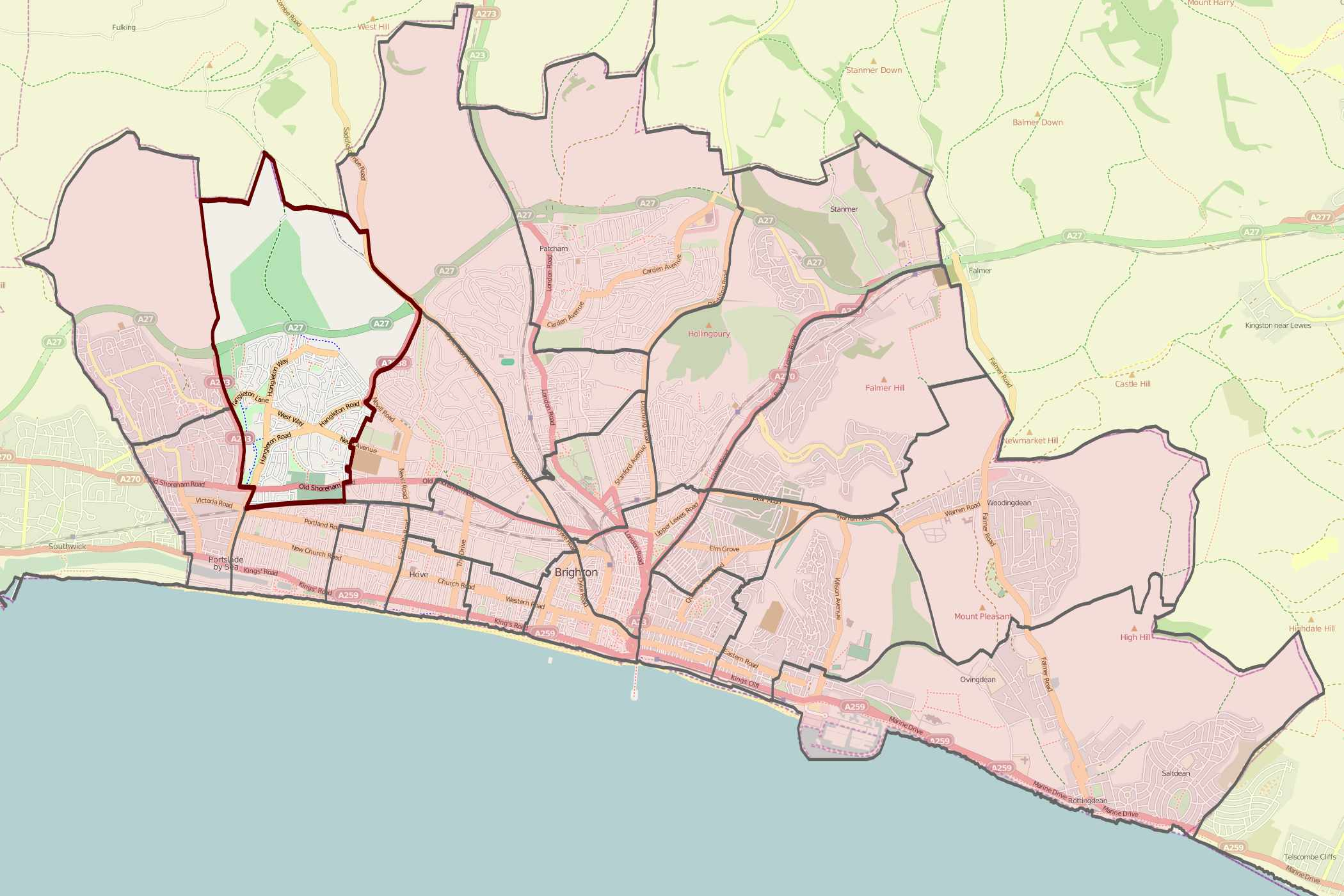 Map of Brighton and Hove wards with one ward highlighted